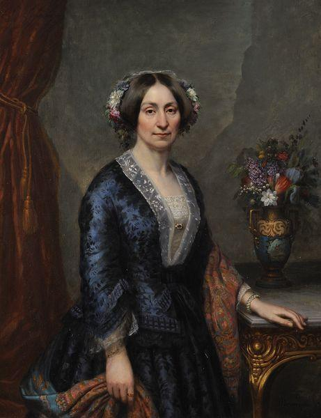 The Duchess of Orléans (Helene of Mecklenburg-Schwerin)